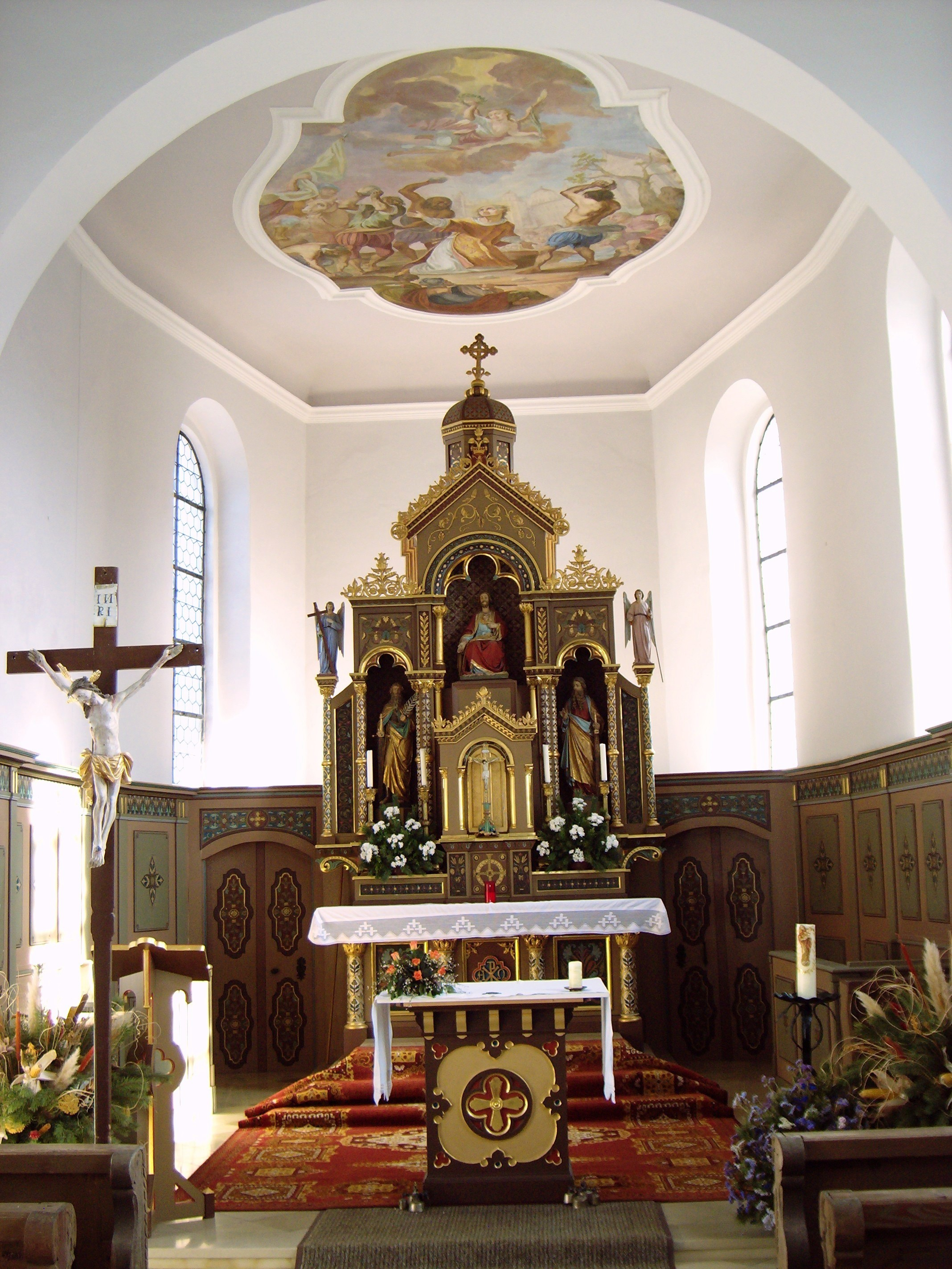 Welden (Fuchstal), interior view of the choir of St Stephen's Subsidiary Church from west.